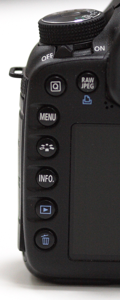 Canon EOS 7D, buttons.